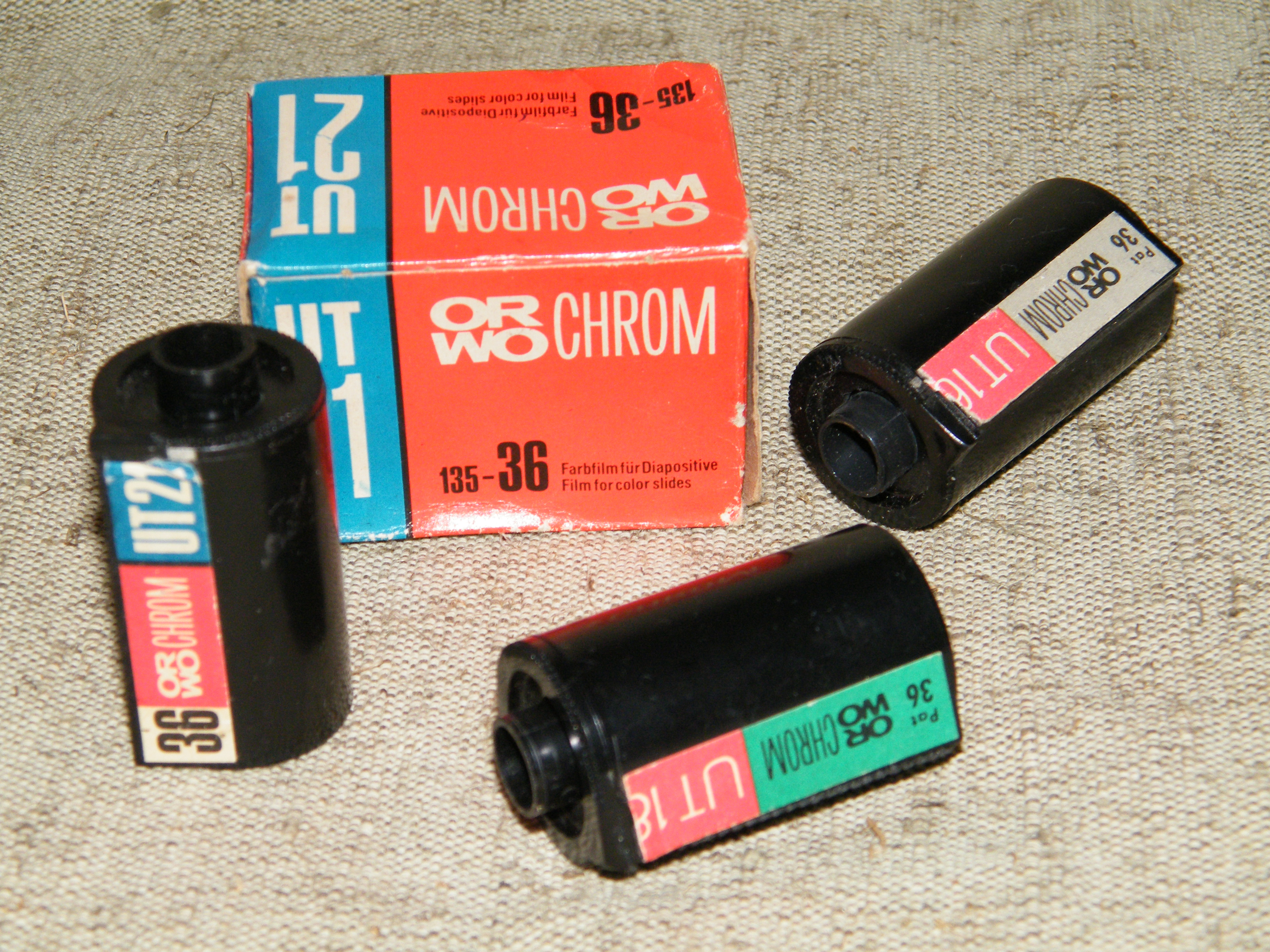 Фотопленка ORWOCHROM